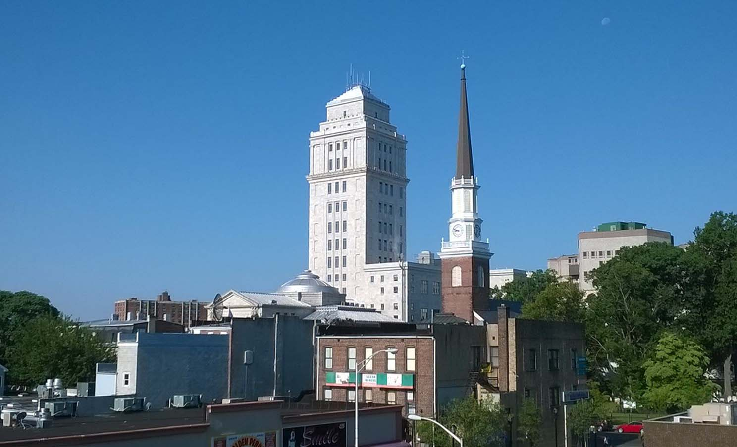 Elizabeth's Union County Courthouse picture taken from above.